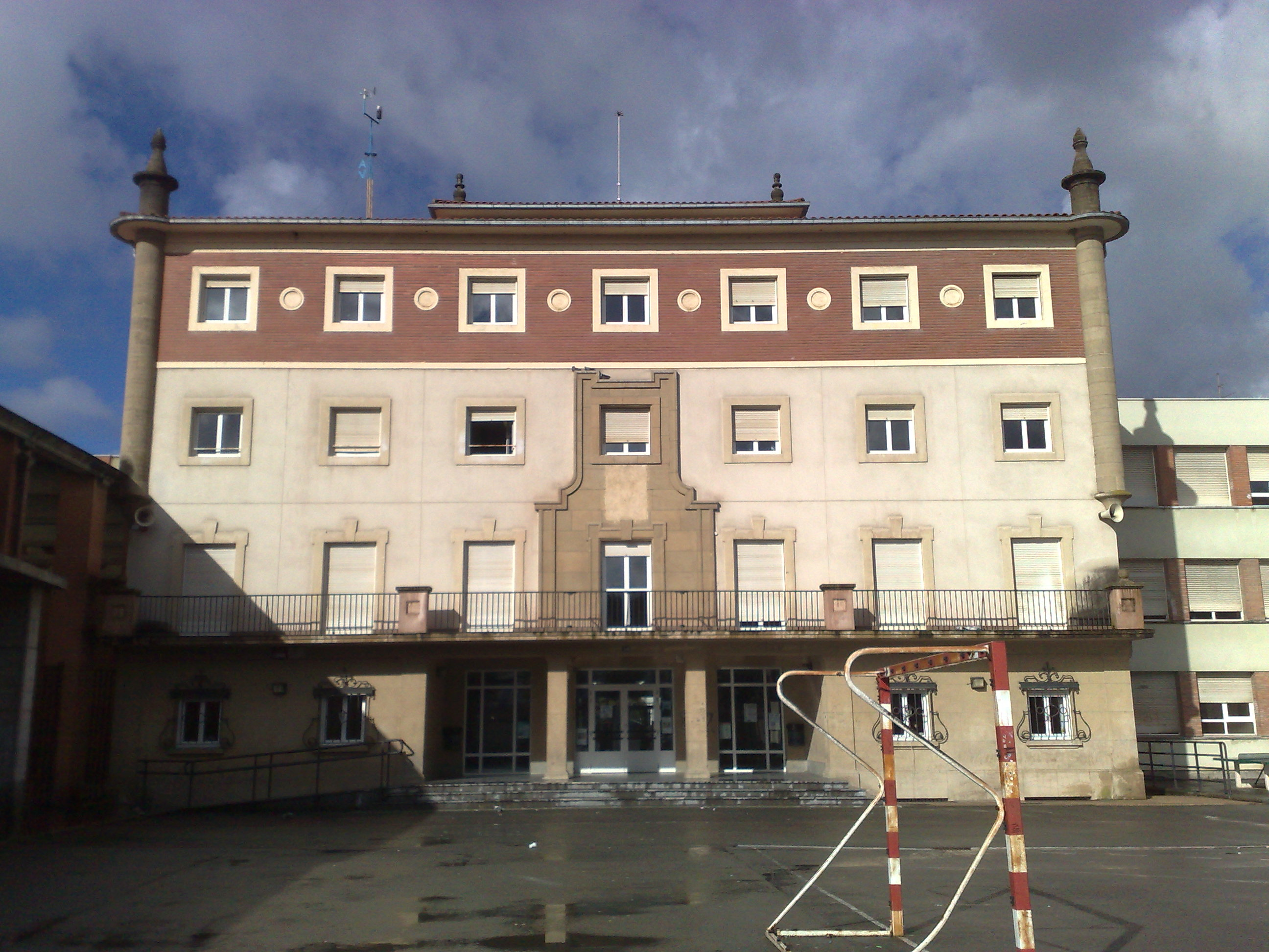 Laudio High School, Laudio/Llodio, province of Araba, Basque Country.